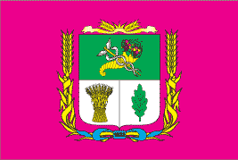 Flag of Chuhujivskyj district (Ukraine)